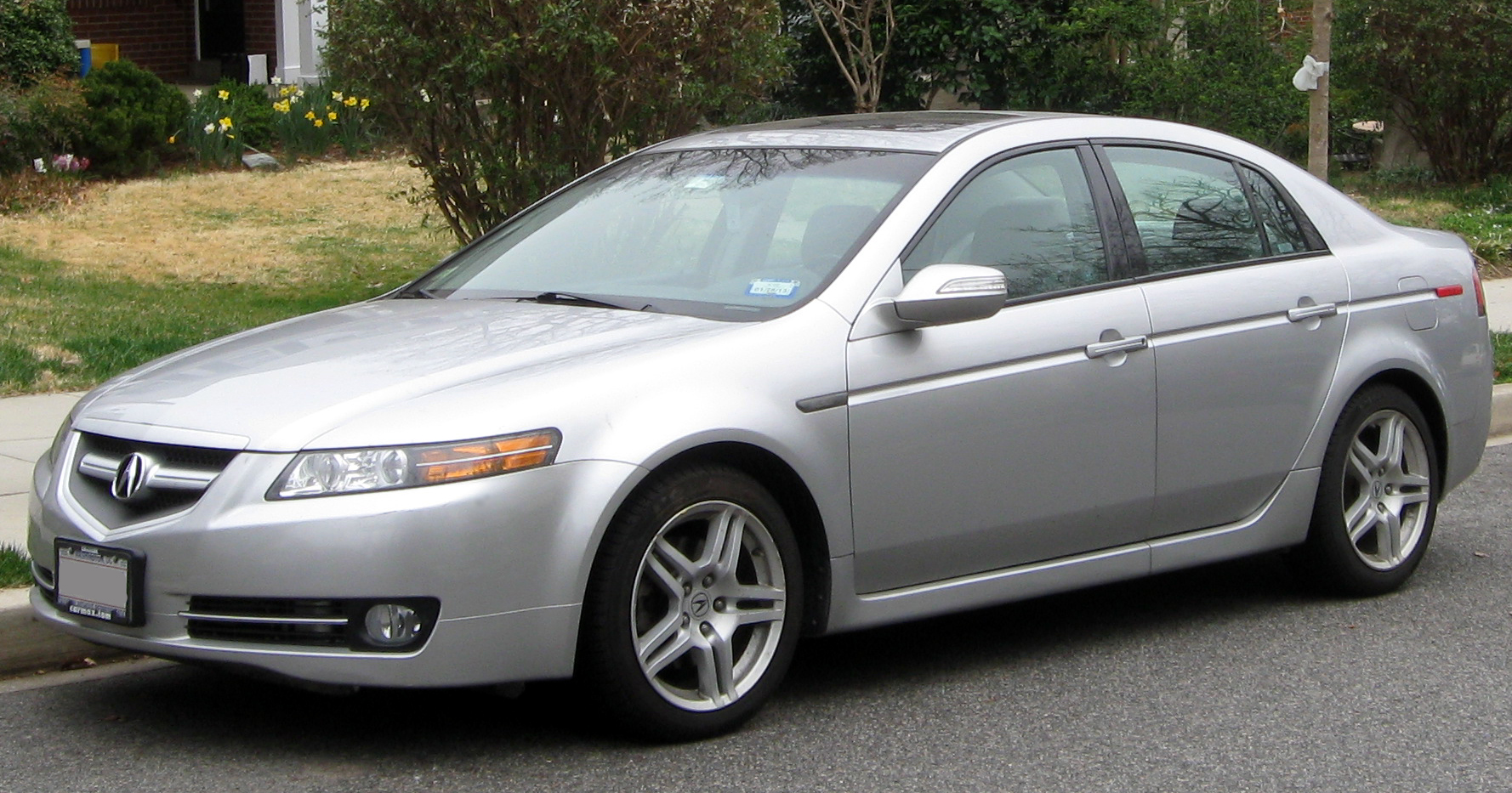 2007-2008 Acura TL photographed in Washington, D.C., USA.